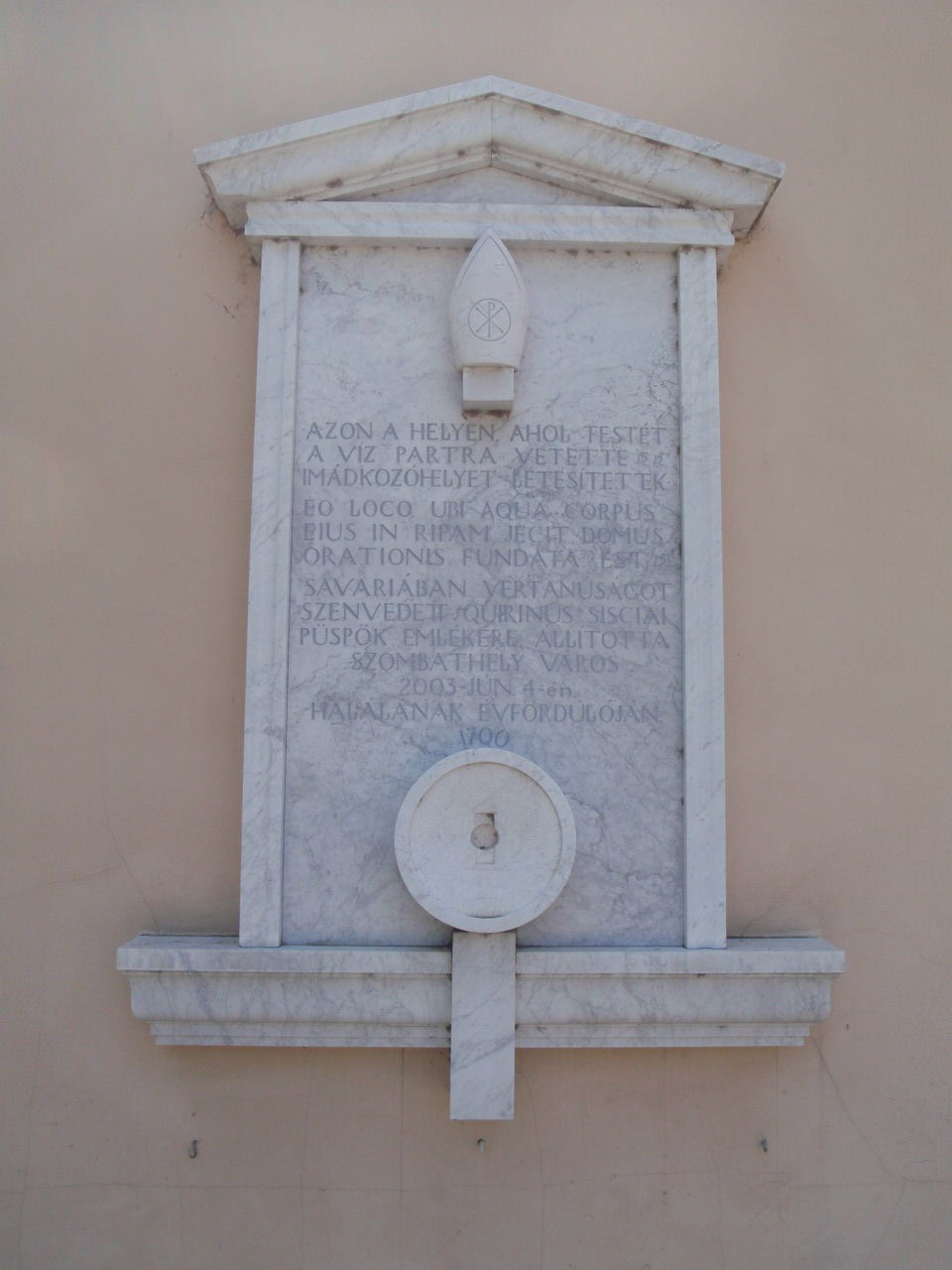 statue of Saint Quirinus of Siscia in Szombathely, Nearby killed, the death of the 1700th anniversary